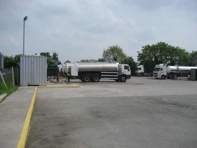 Distribution Centre, Four Crosses The Offa's Dyke National Trail goes through this yard - operated by Lloyd Fraser (Bulk Liquids) Ltd.